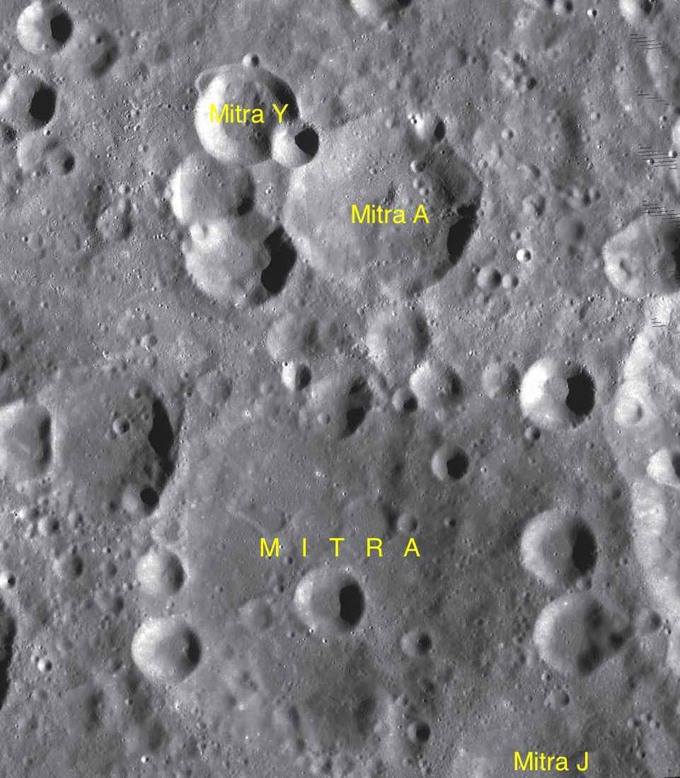 Part of the chart LAC-51 used for the presentation